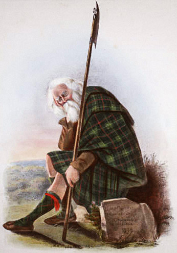 "Farquharson". A plate illustrated by R. R. McIan, from James Logan's The Clans of the Scottish Highlands, published in 1845.